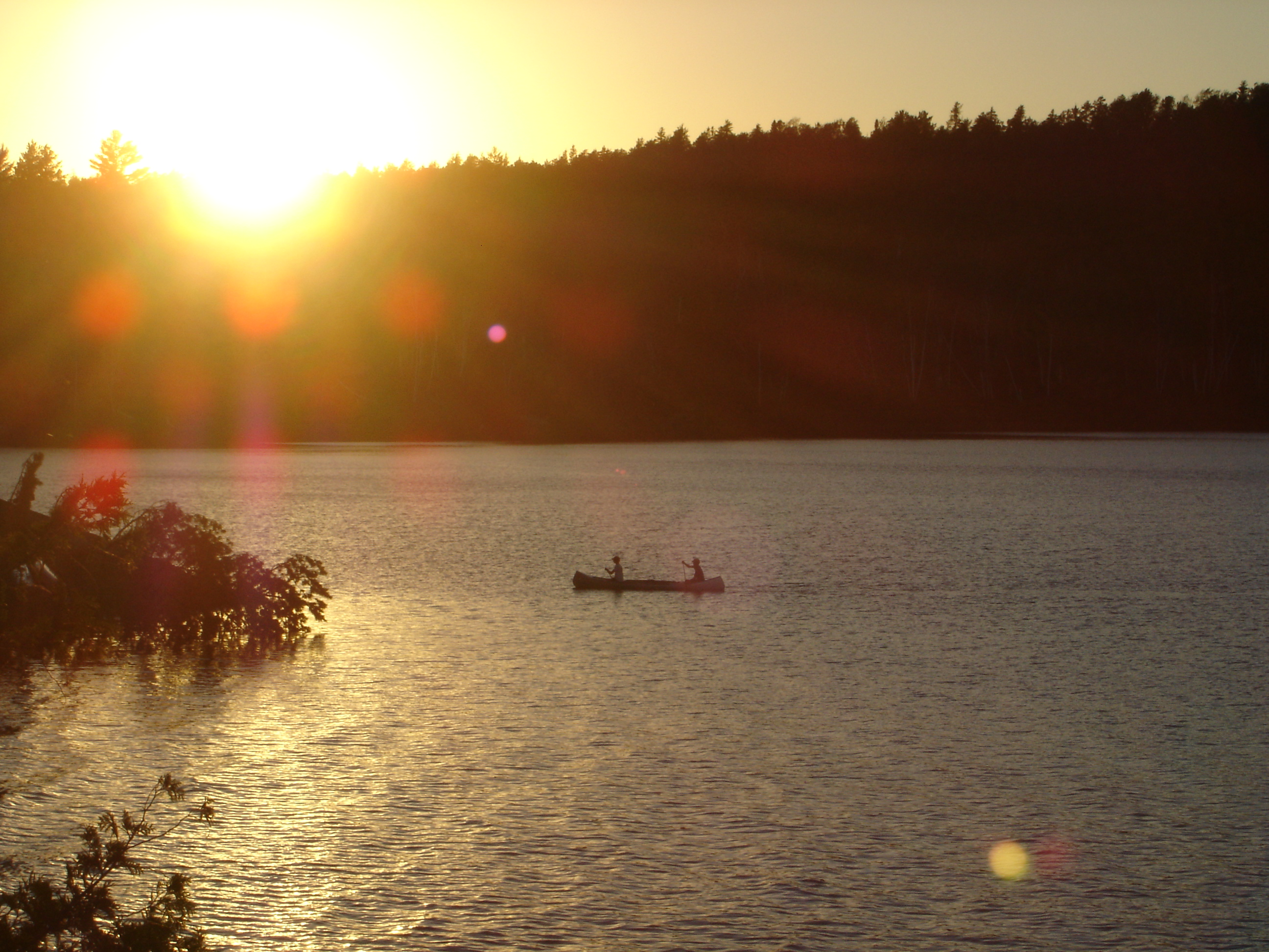 Picture of a lake (unsure of name) in Quetico Provincial Park.